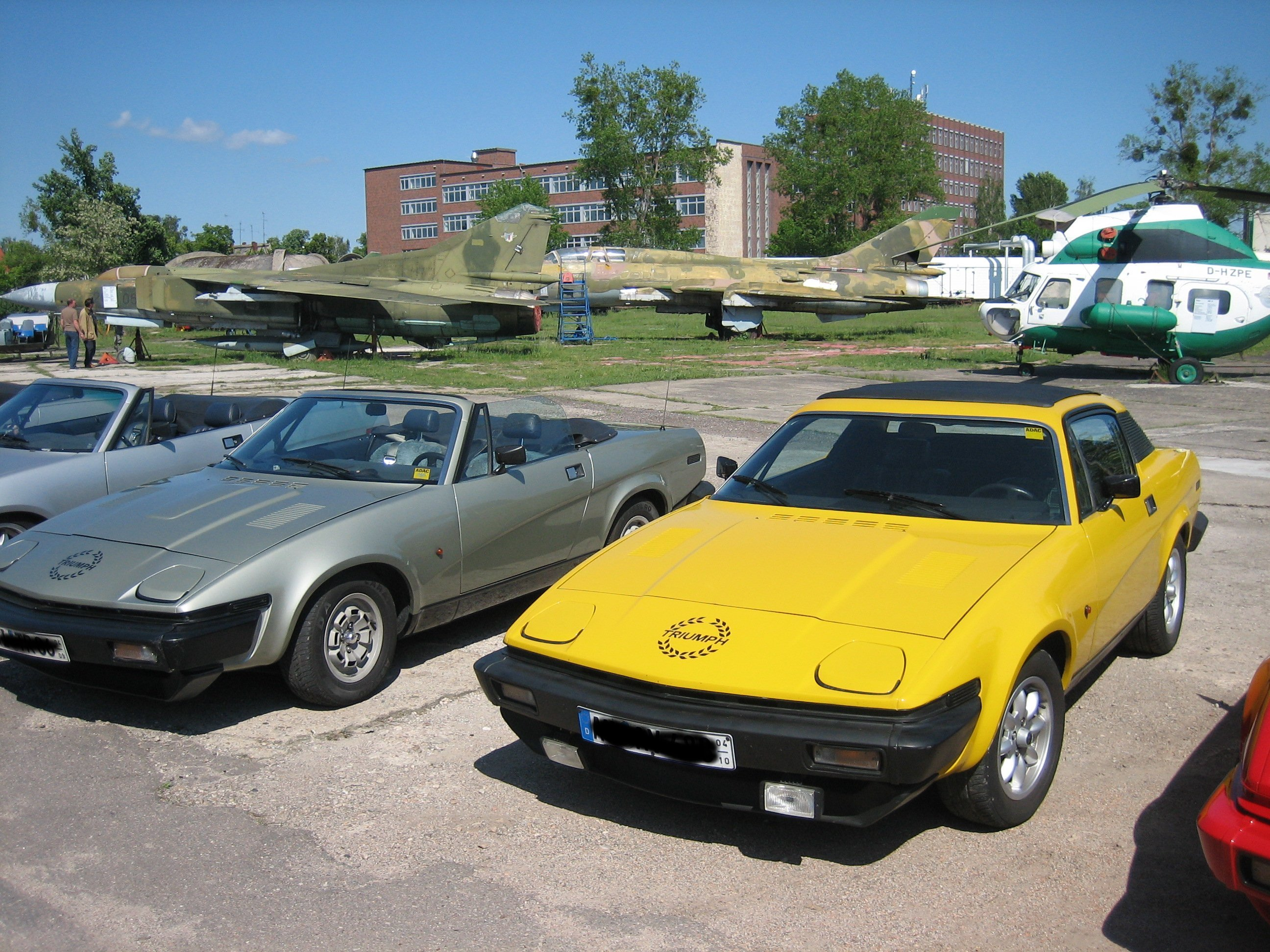 Triumph TR7 at Meeting in Dessau Germany, May 2007